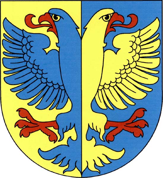 Municipal coat of arms of Vlastislav village, Litoměřice District, Czech Republic.